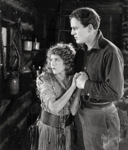 Mary Pickford and Thomas Meighan in M'Liss (1918) - cropped screenshot